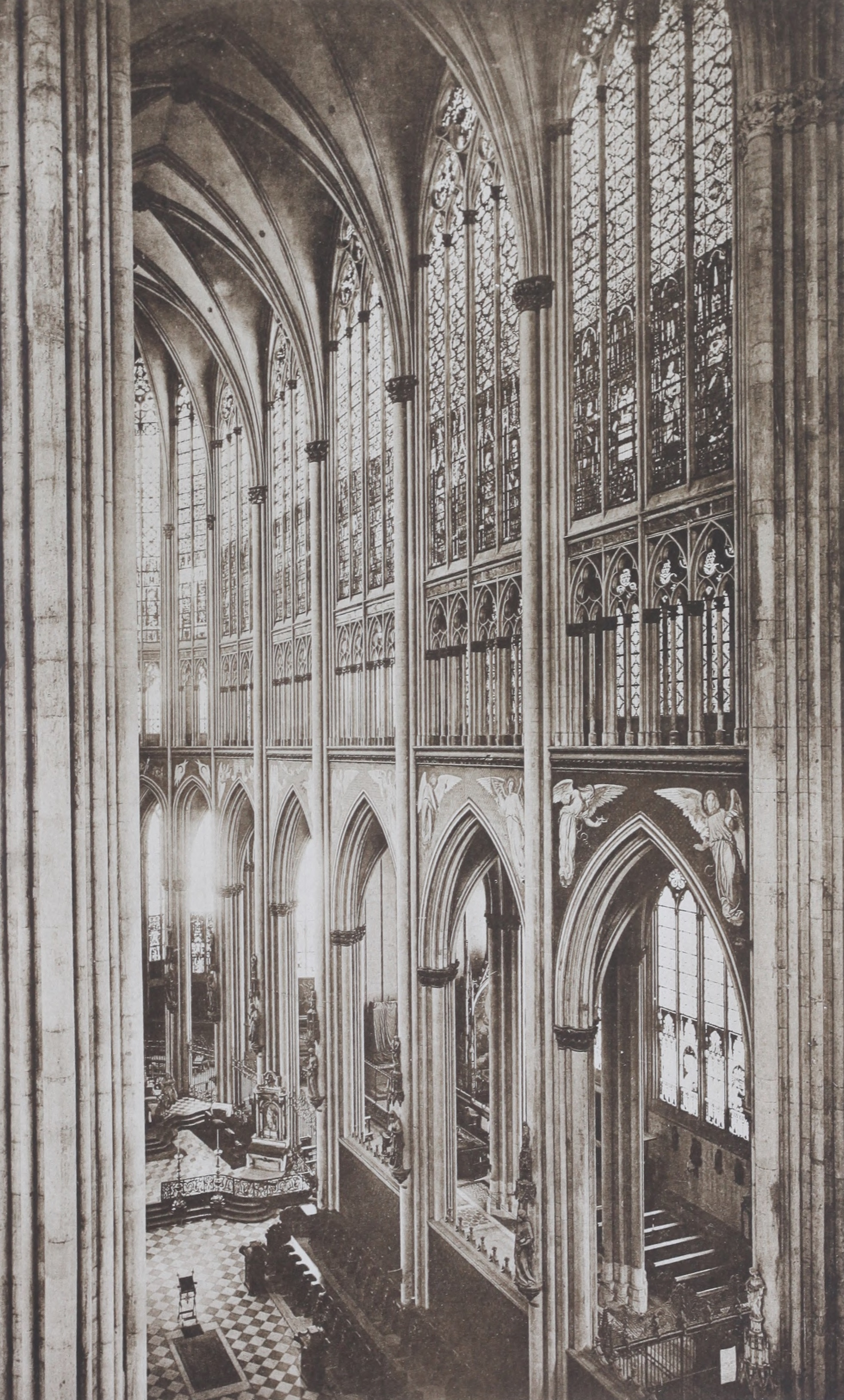 Cologne Cathedral, choir, panorama view, before 1911